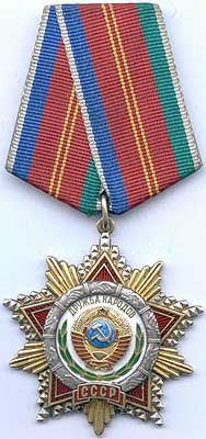 Soviet Order of Friendship of Peoples